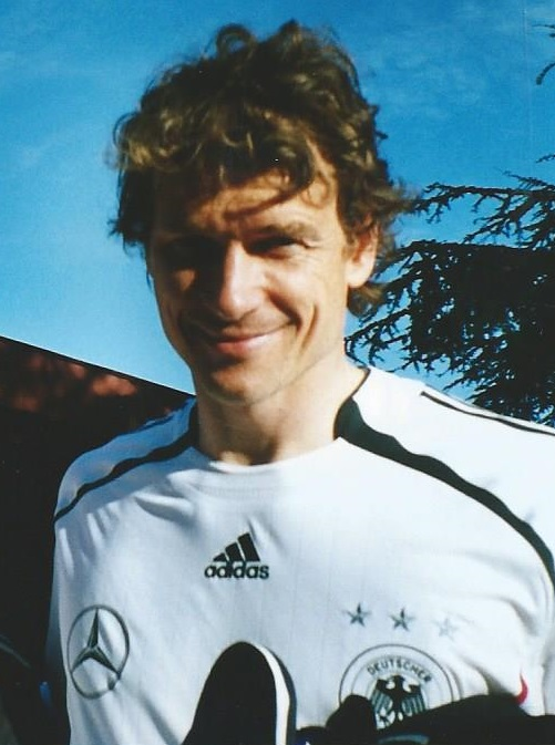 Jens Lehmann in 2006